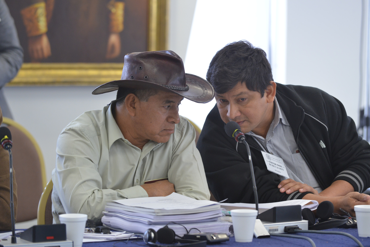 Fernando Vargas, President of the Sub-Central del Territorio y Parque Nacional Isiboro Sécure (left) and Adolfo Chávez (right), President of Confederación de Pueblos Indígenas de Bolivia (CIDOB) appear at a hearing of the 147th Ordinary Sessions of the Inter-American Commission on Human Rights in Washington, DC. The hearing was on the Human rights situation of the indigenous peoples who inhabit the Isiboro Sécure National Park and Indigenous Territory (TIPNIS). It was held on March 15, 2013 at the IACHR in Washington, DC. Photo by Eddie Arrossi. Complainants in the case included: Sub-Central del Territorio y Parque Nacional Isiboro Sécure (TIPNIS) / Central de Pueblos Étnicos y Mojeños del Beni (CPEM-B) / Confederación de Pueblos Indígenas de Bolivia (CIDOB) / Coordinadora de las Organizaciones Indígenas de la Cuenca Amazónica (COICA) / Fundación Construir / Red Jurídica Amazónica (RAMA) / EarthRights International (ERI) / Fundación para el Debido Proceso (DPLF). The Respondent was the State of Bolivia